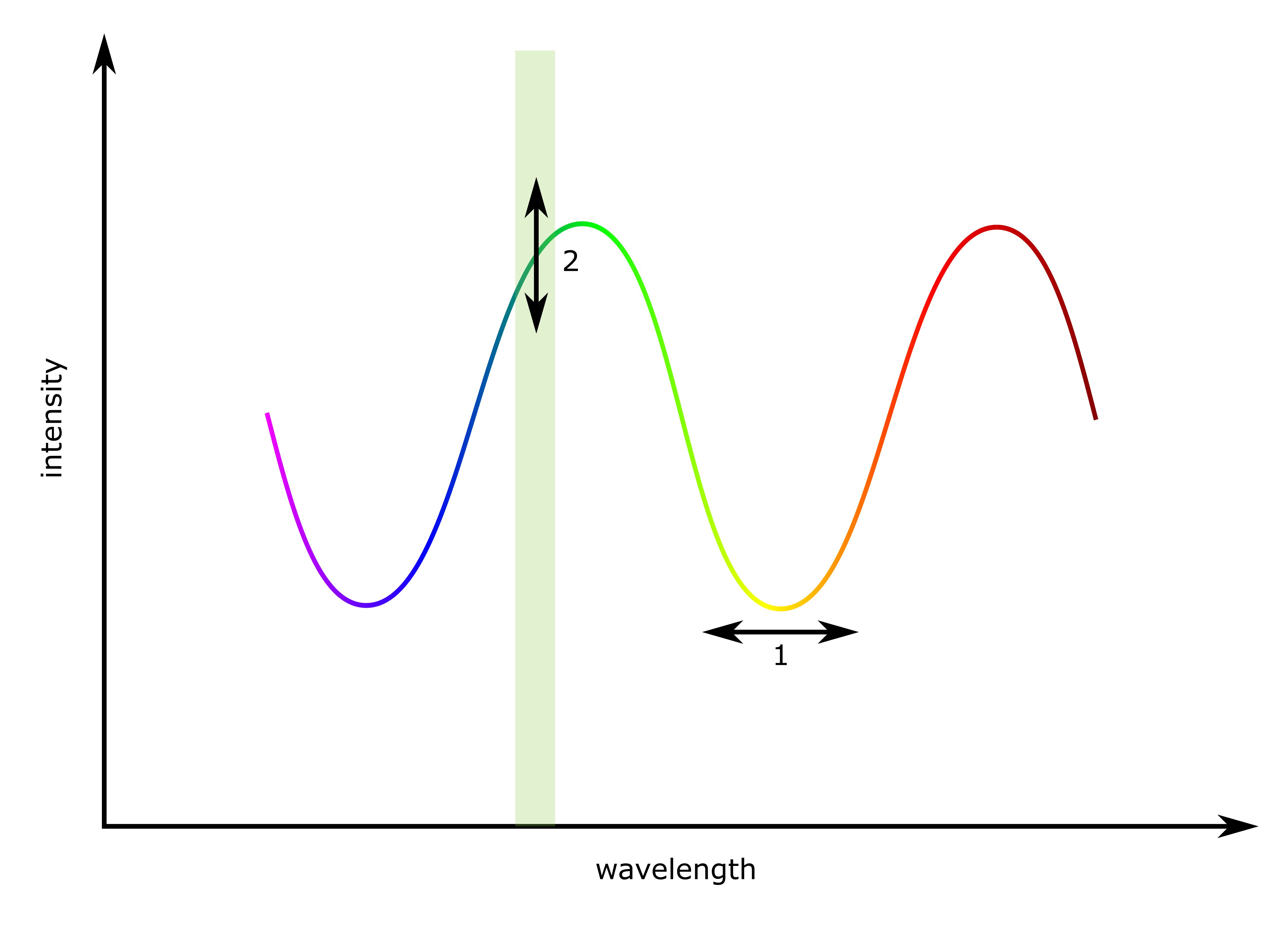 Principle of spectral reflectometry